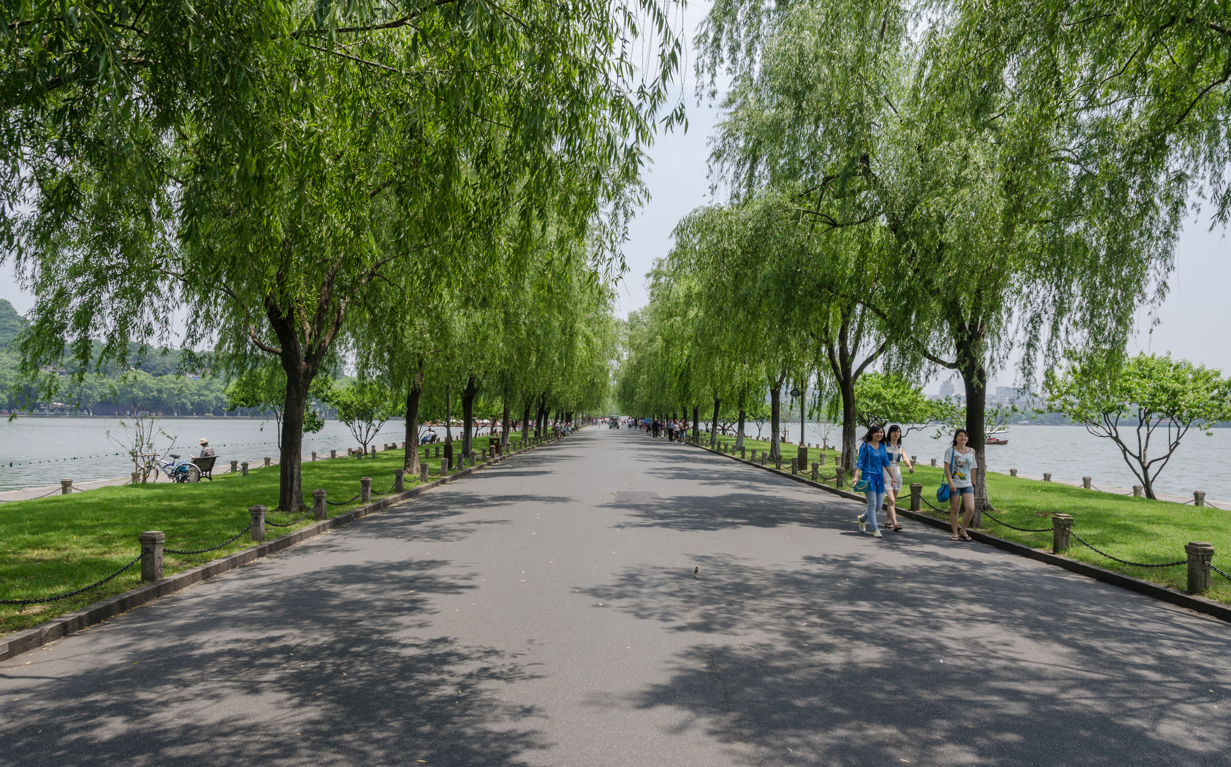 The so called Su Causeway, a long pedestrian avenue at the west side of the West Lake